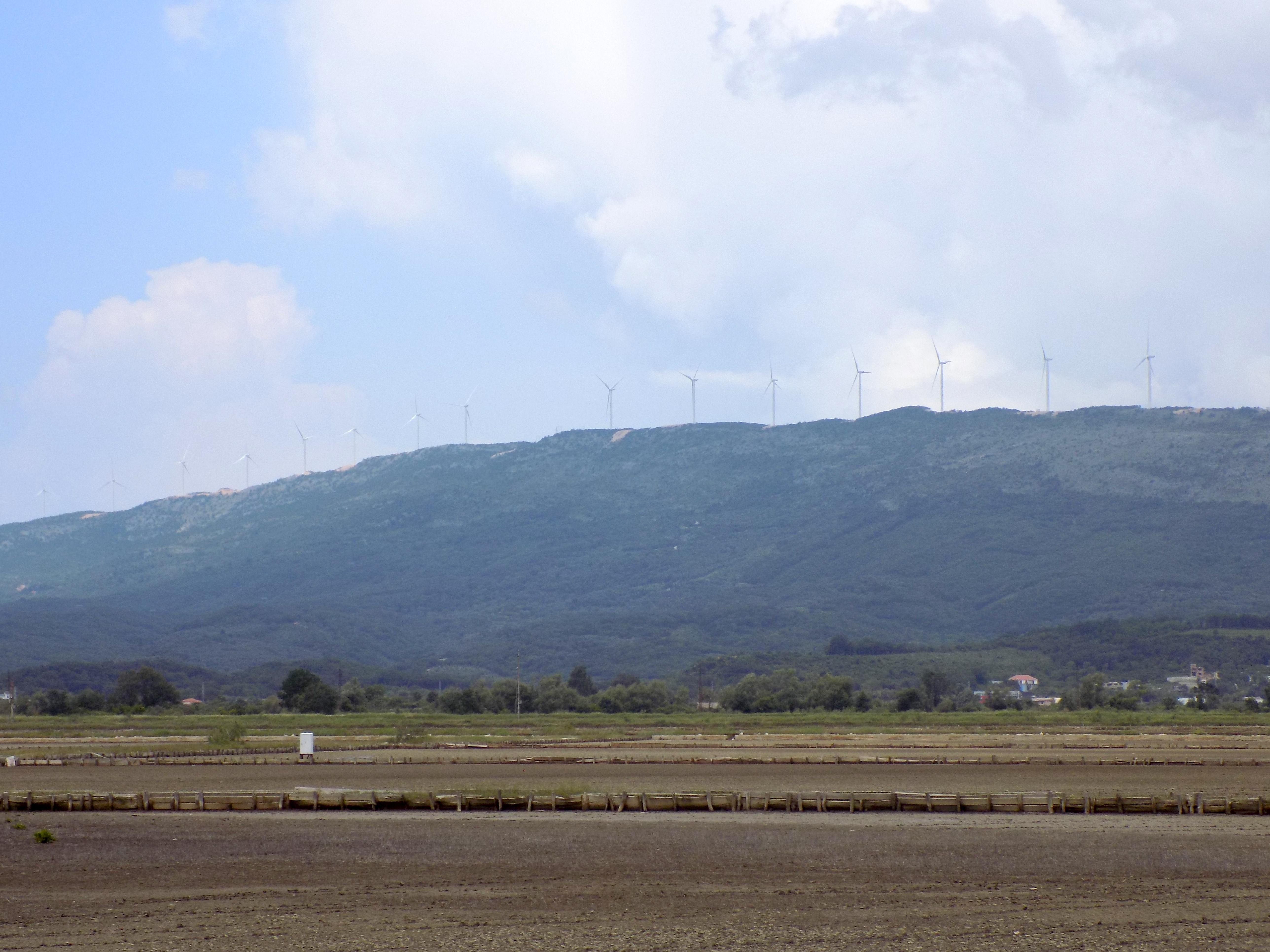 Ulcinj Salinas, important bird area